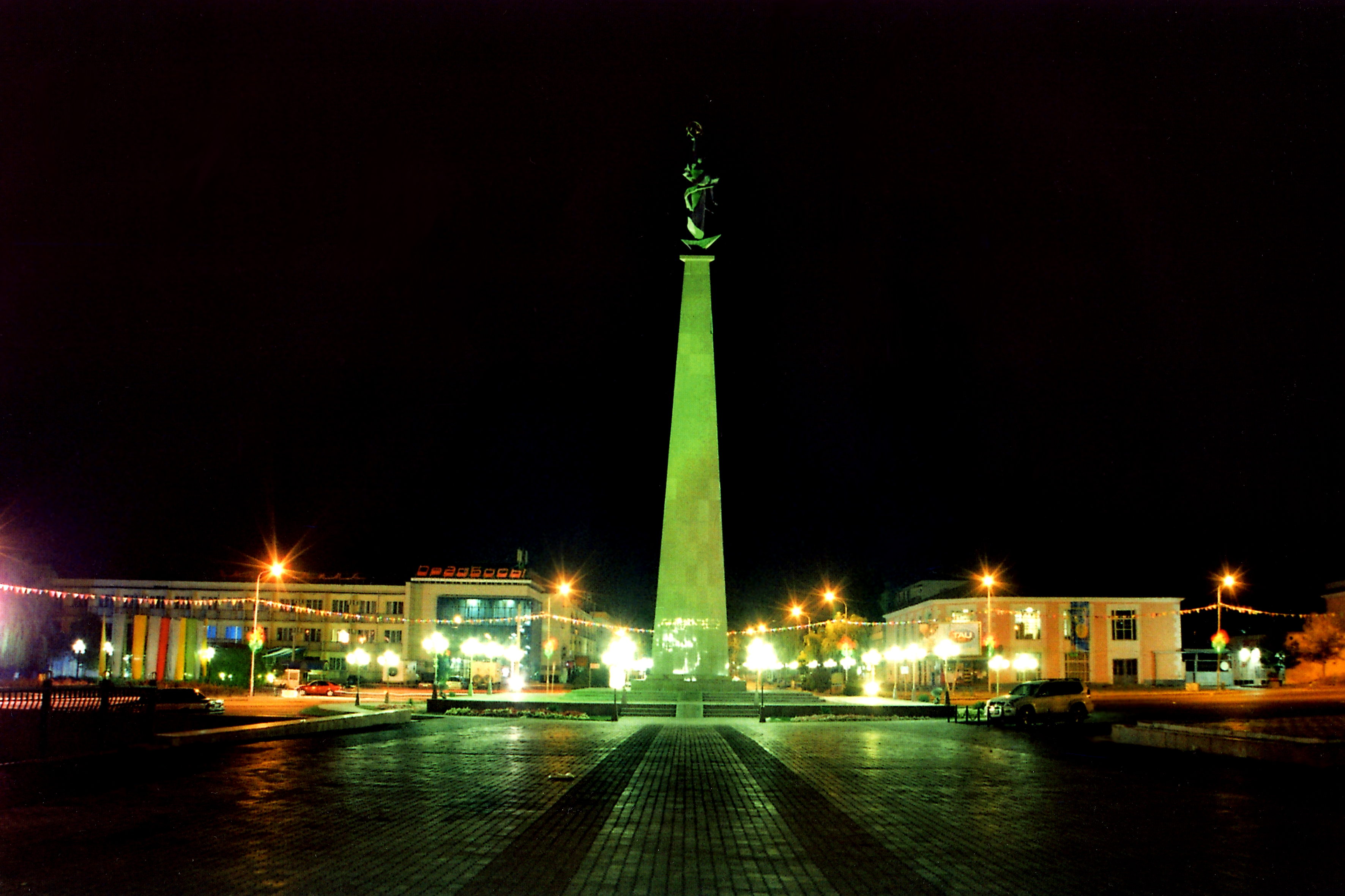 There is Shymkent's Ordabasy Plaza in this photo.